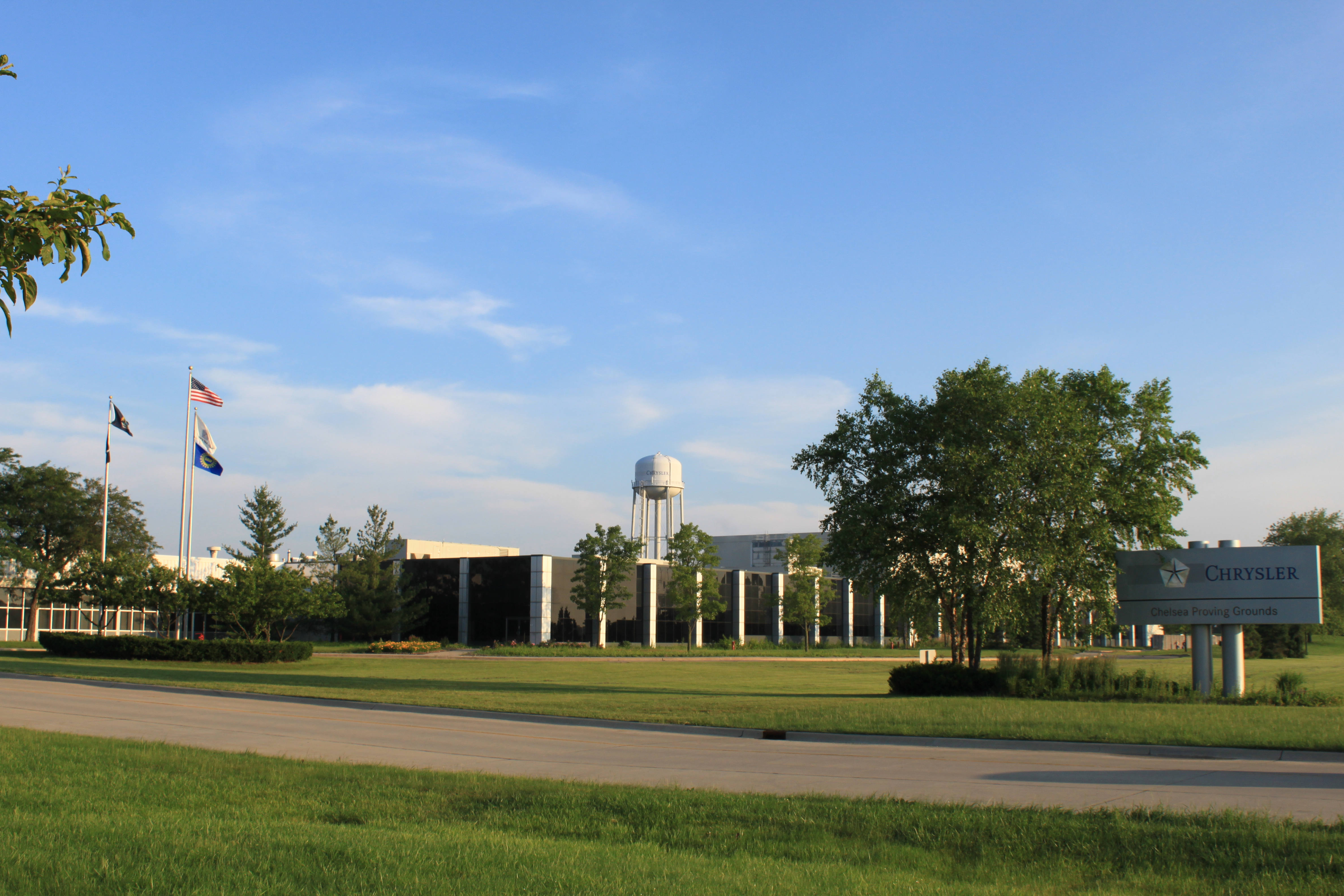 Chrysler Chelsea Proving Grounds, Sylvan Township, Michigan